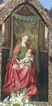 Virgen de las Nieves de Agaete